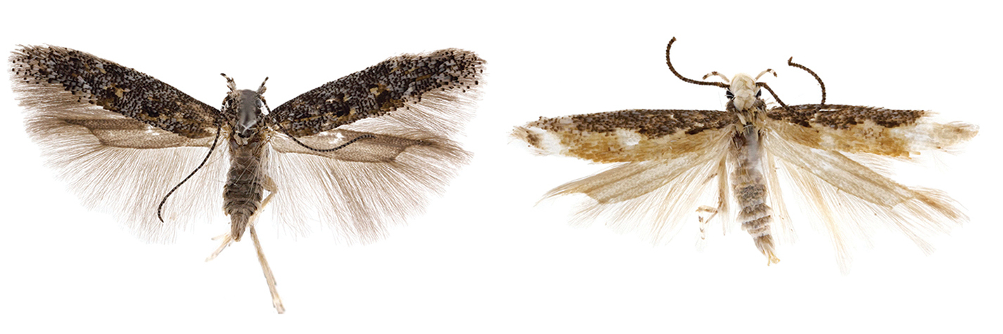 Neopalpa neonata (left) and Neopalpa donaldtrumpi